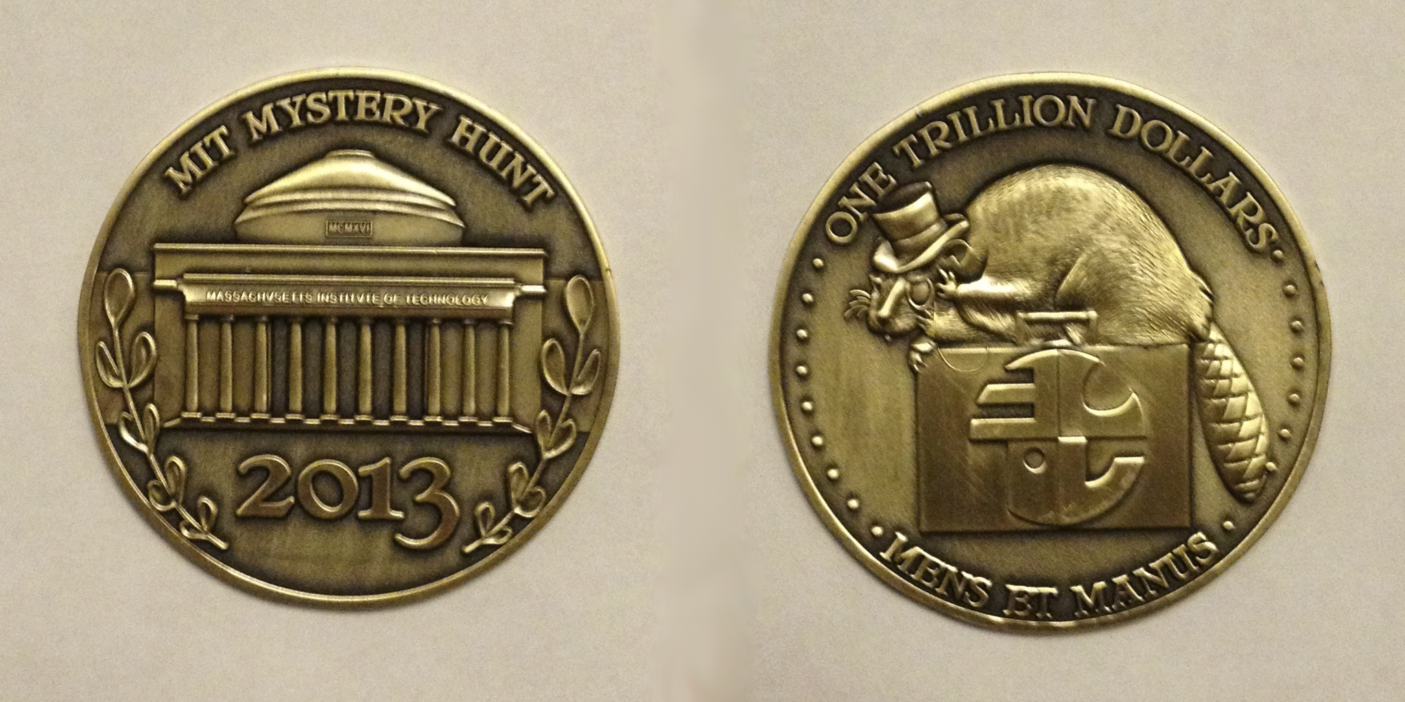 The objective of the annual MIT Mystery Hunt is to find the coin. The coin is different each year. In 2013, it looked like this. Many copies of the coin were made, so every member of the winning team got to keep a coin as a souvenir.